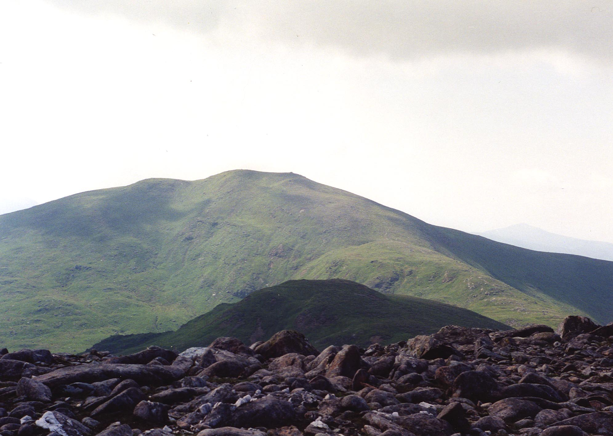 Personal picture taken by Mick Knapton